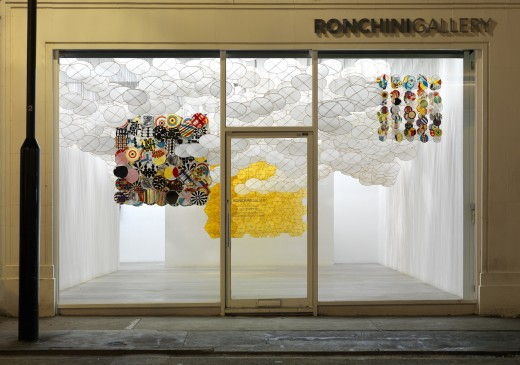 Ronchini Gallery Facade